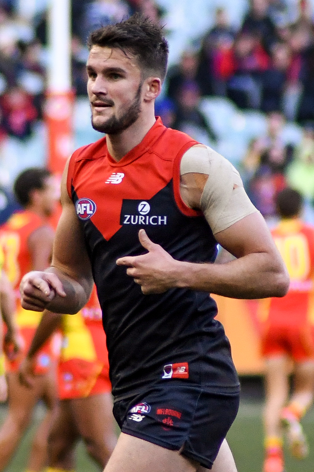 Joel Smith of Melbourne during the 2018 AFL round 20 match between Melbourne and Gold Coast at the Melbourne Cricket Ground on Sunday, 5 August 2018 in Melbourne, Victoria.